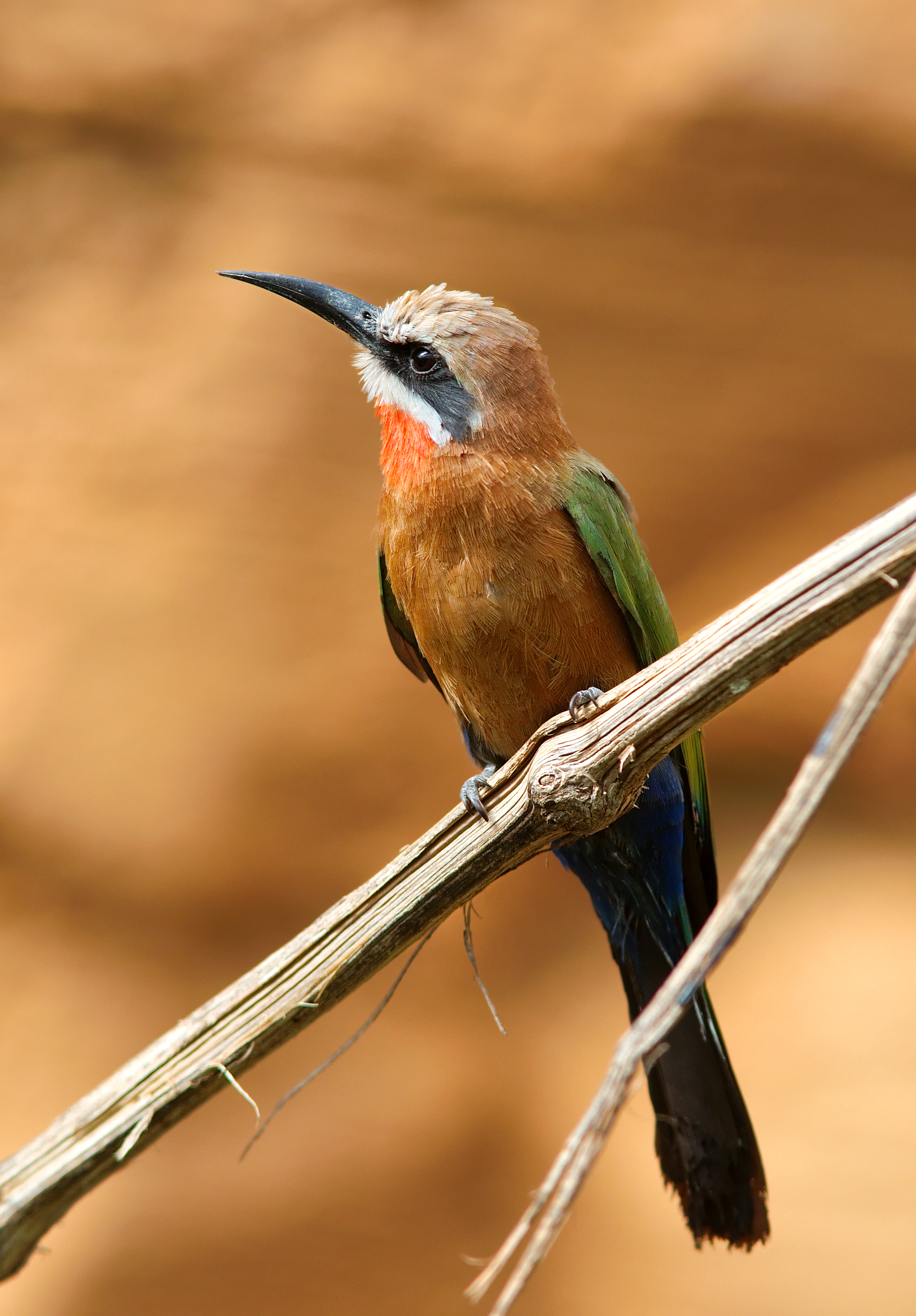 'Merops bullockoides White-fronted Bee-eater